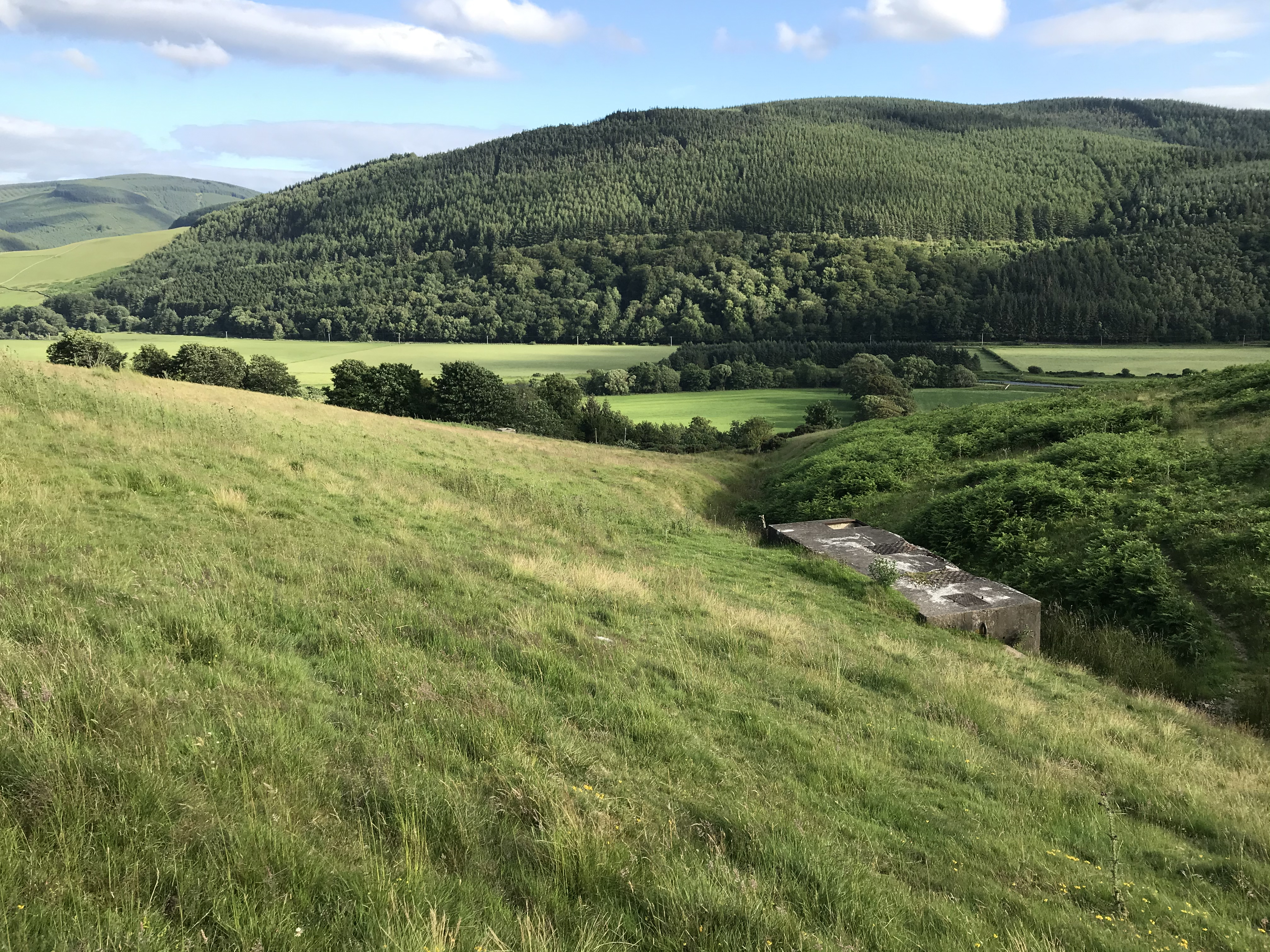 Storage tank on Kirna Burn originally built to supply water to The Kirna and several other properties Walkerburn